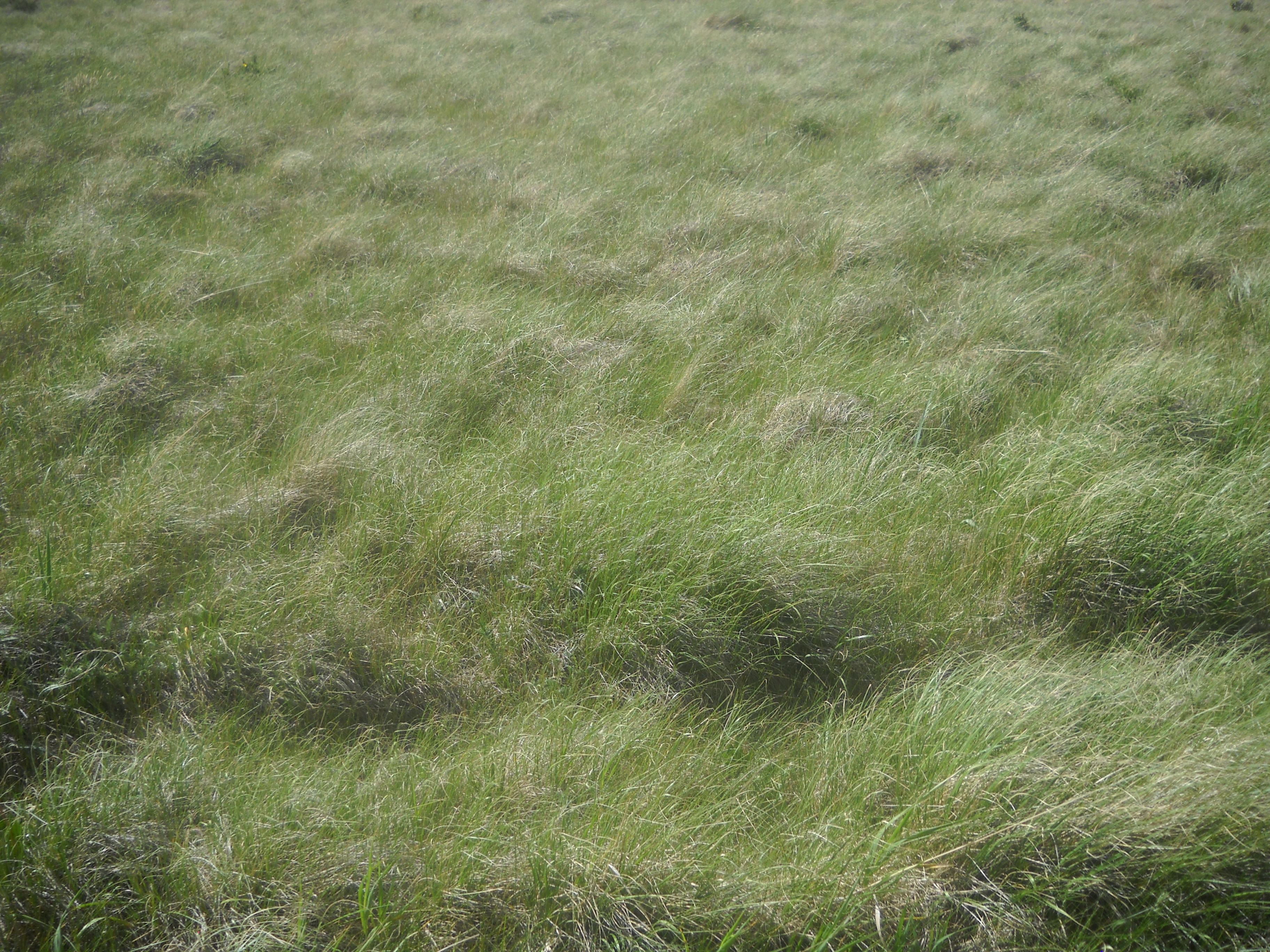 Image of grasses under windy conditions – this photograph was taken on June 26, 2014 in the afternoon. It was taken just off New Mexico State Highway 4 from within the Valles Caldera.